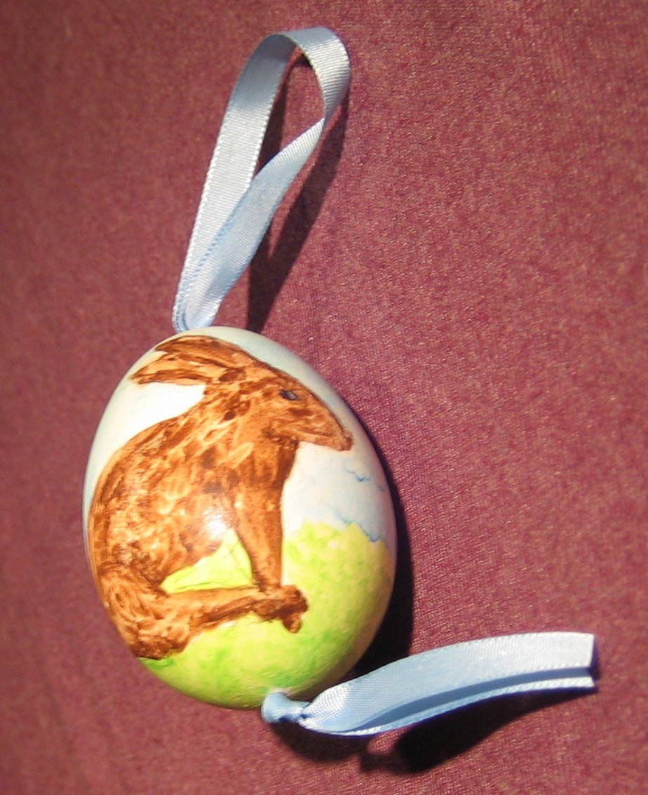 easter eggs in the stage of painting